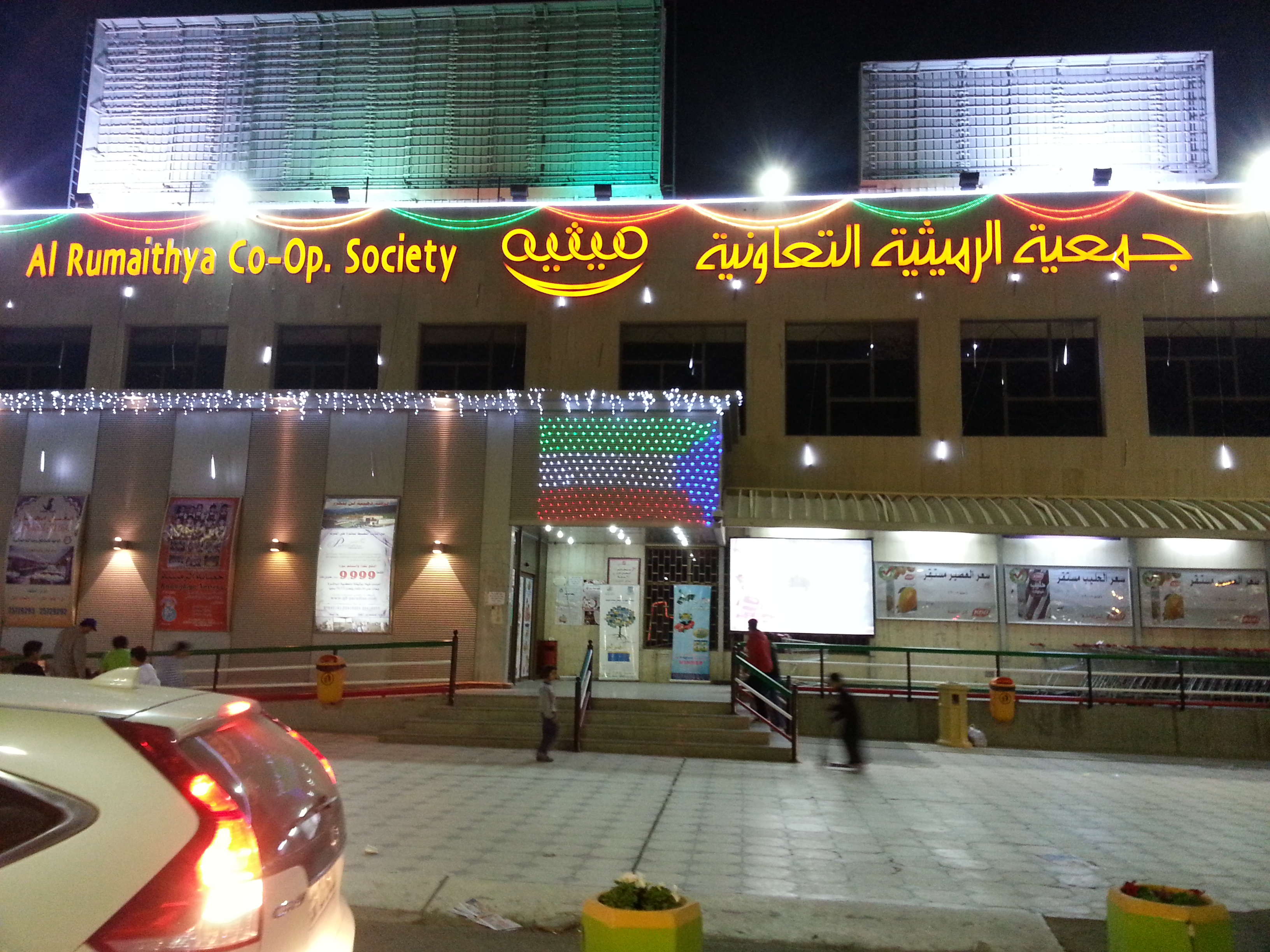 Rumaithiya Co-Op society days before Kuwait Liberation Day